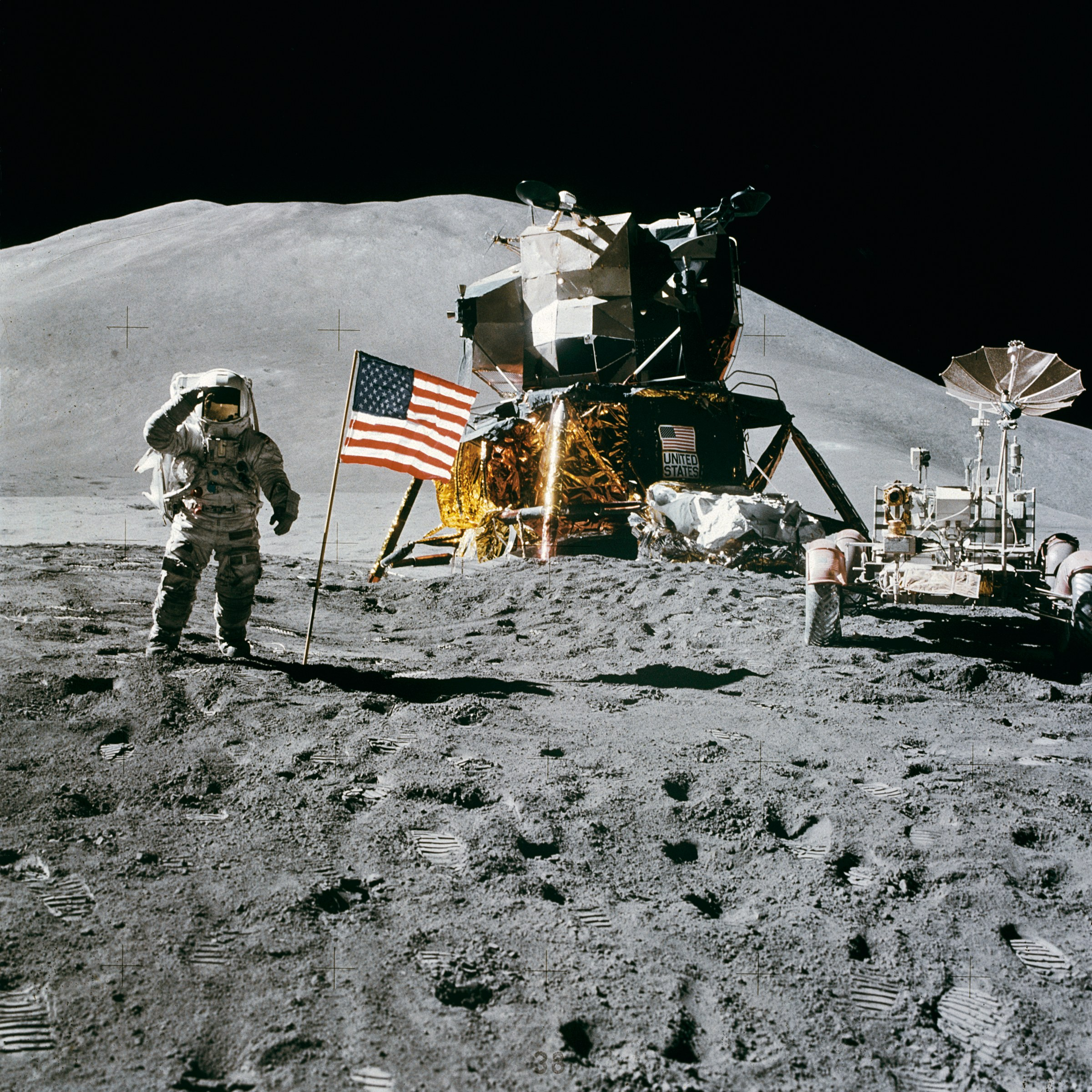 Apollo 15 Lunar Module Pilot James Irwin salutes the U.S. flag.Astronaut James B. Irwin, lunar module pilot, gives a military salute while standing beside the deployed U.S. flag during the Apollo 15 lunar surface extravehicular activity (EVA) at the Hadley-Apennine landing site. The flag was deployed toward the end of EVA-2. The Lunar Module (LM) "Falcon" is in the center. On the right is the Lunar Roving Vehicle (LRV). This view is looking almost due south. Hadley Delta in the background rises approximately 4,000 meters (about 13,124 feet) above the plain. The base of the mountain is approximately 5 kilometers (about 3 statute miles) away. This photograph was taken by Astronaut David R. Scott, Apollo 15 commander. Original NASA description (From